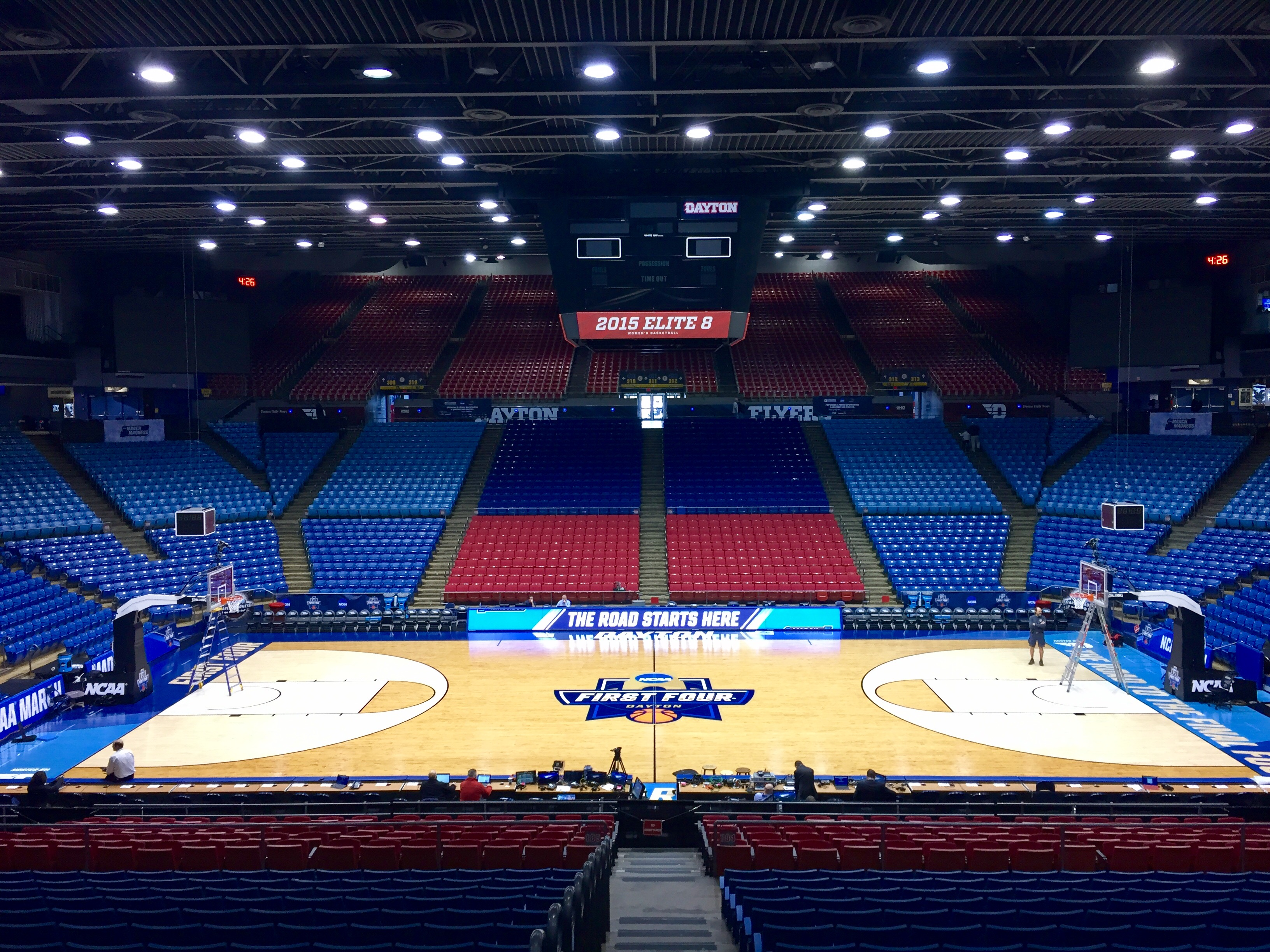 UD Arena hosting the First Four in 2017